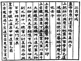 A remake of Kai Yuan Za Bao, original piece was destroyed in Cultural Revolution.